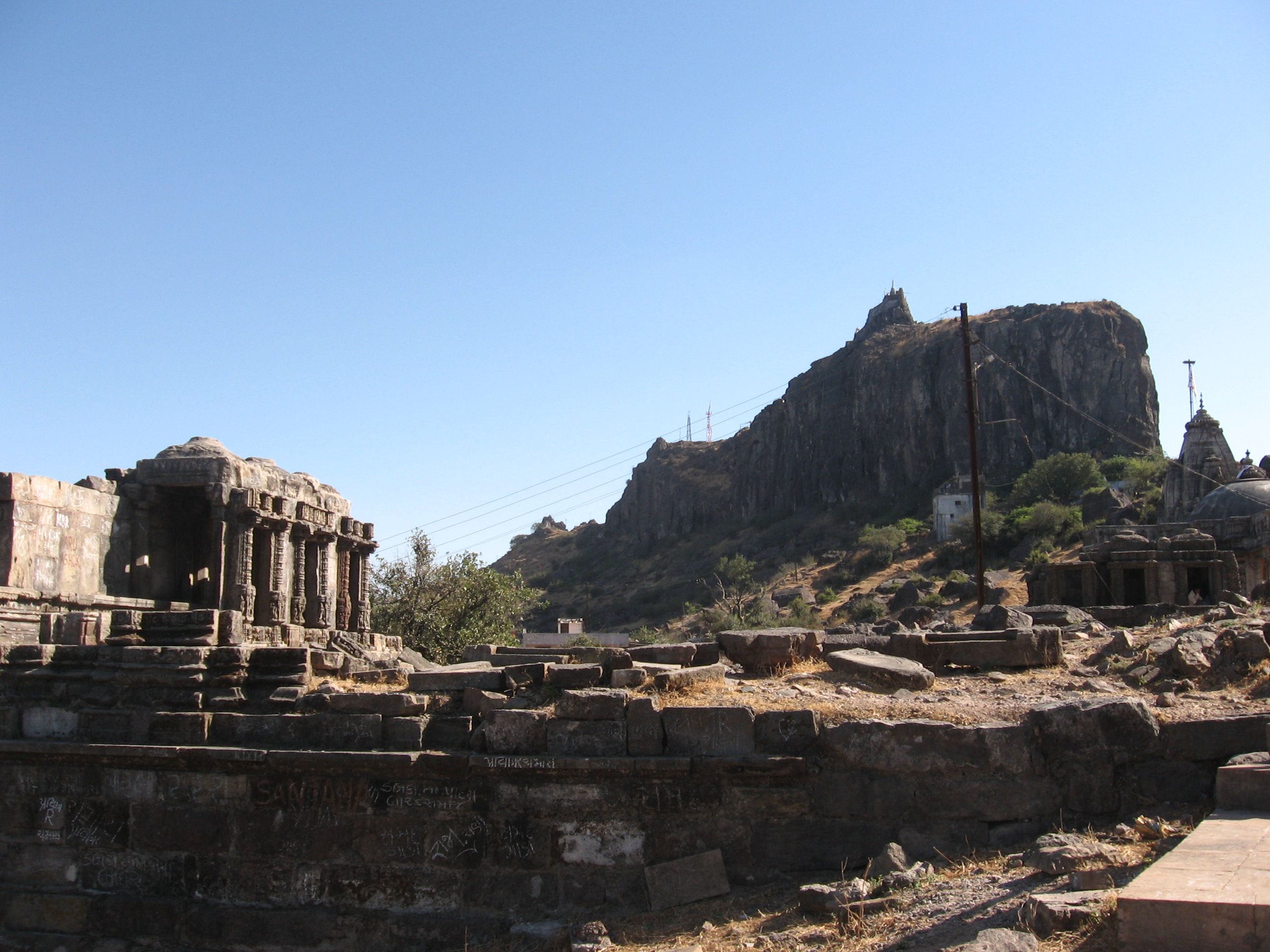 Hindu ruins on Pavadagh hill, Gujarat